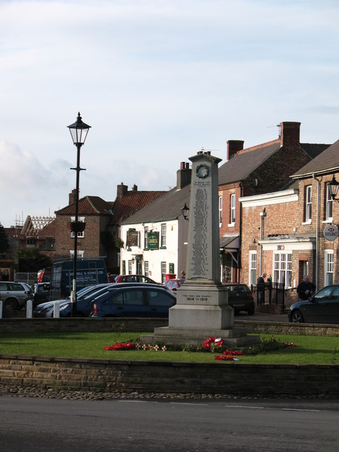 Easingwold War Memorial Situated in a corner of the Market Place.